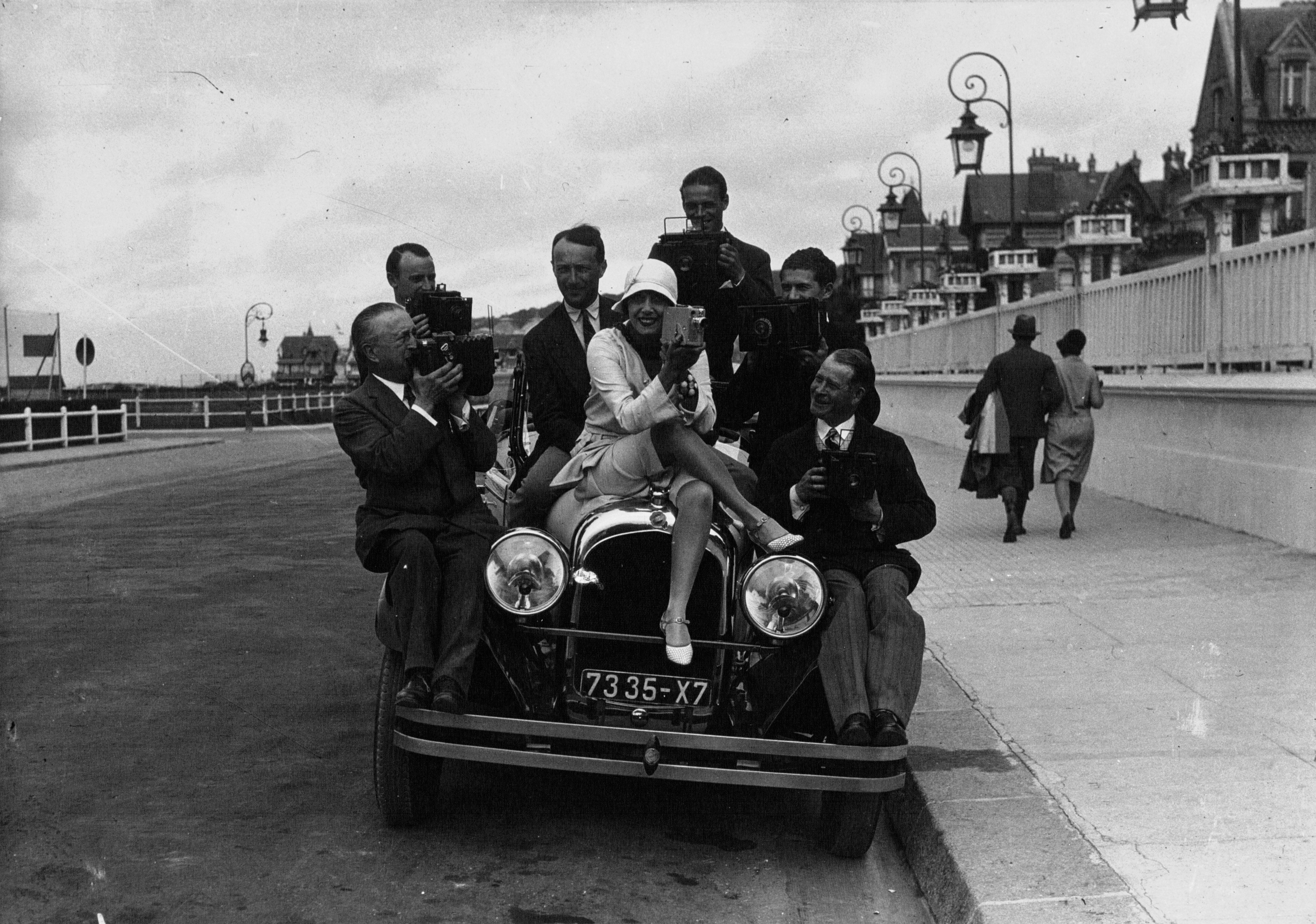 French singer Mistinguett (1875-1956) sitting on her Chrysler with a group of photographers in Deauville in 1929.